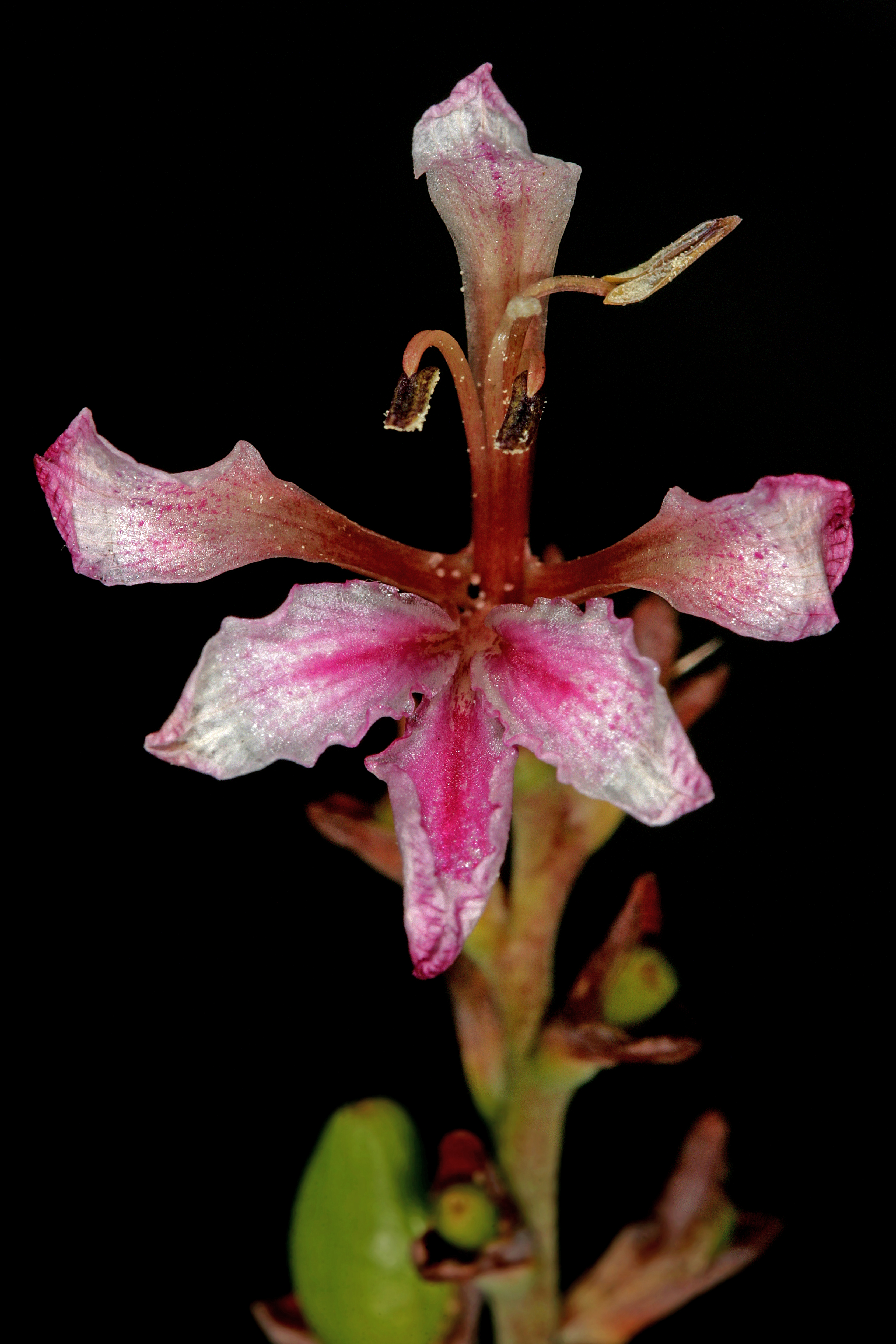 Tritoniopsis dodii, flower (front view), and developing fruit; Cape Point Nature Reserve, Cape Town, Western Cape, South Africa